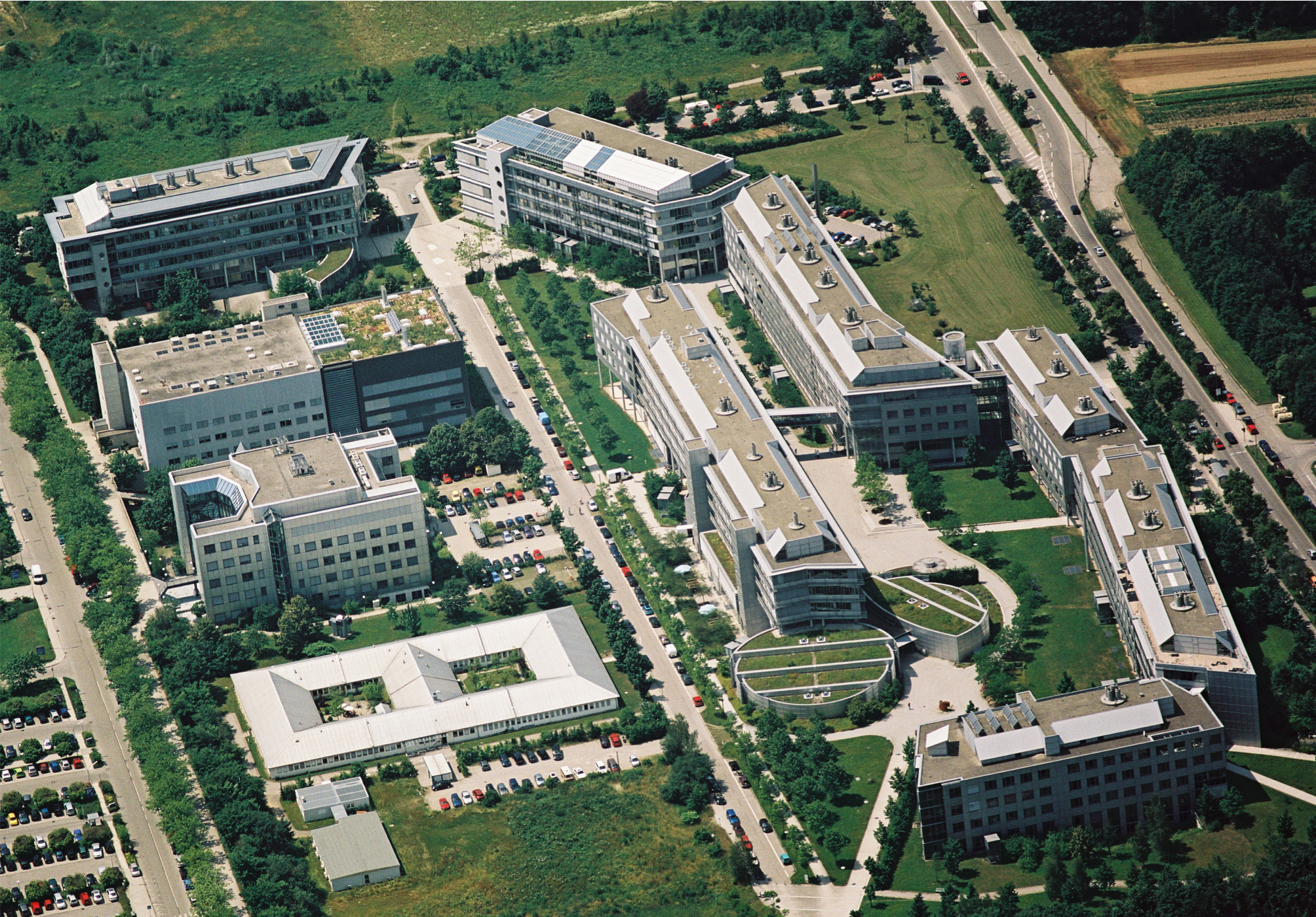 Aerial photography of the headquarters of the Center for Integrated Protein Science Munich